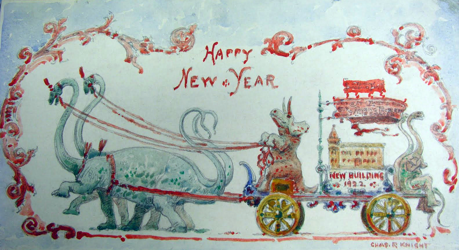 1922 New Year's Card by Charles R. Knight